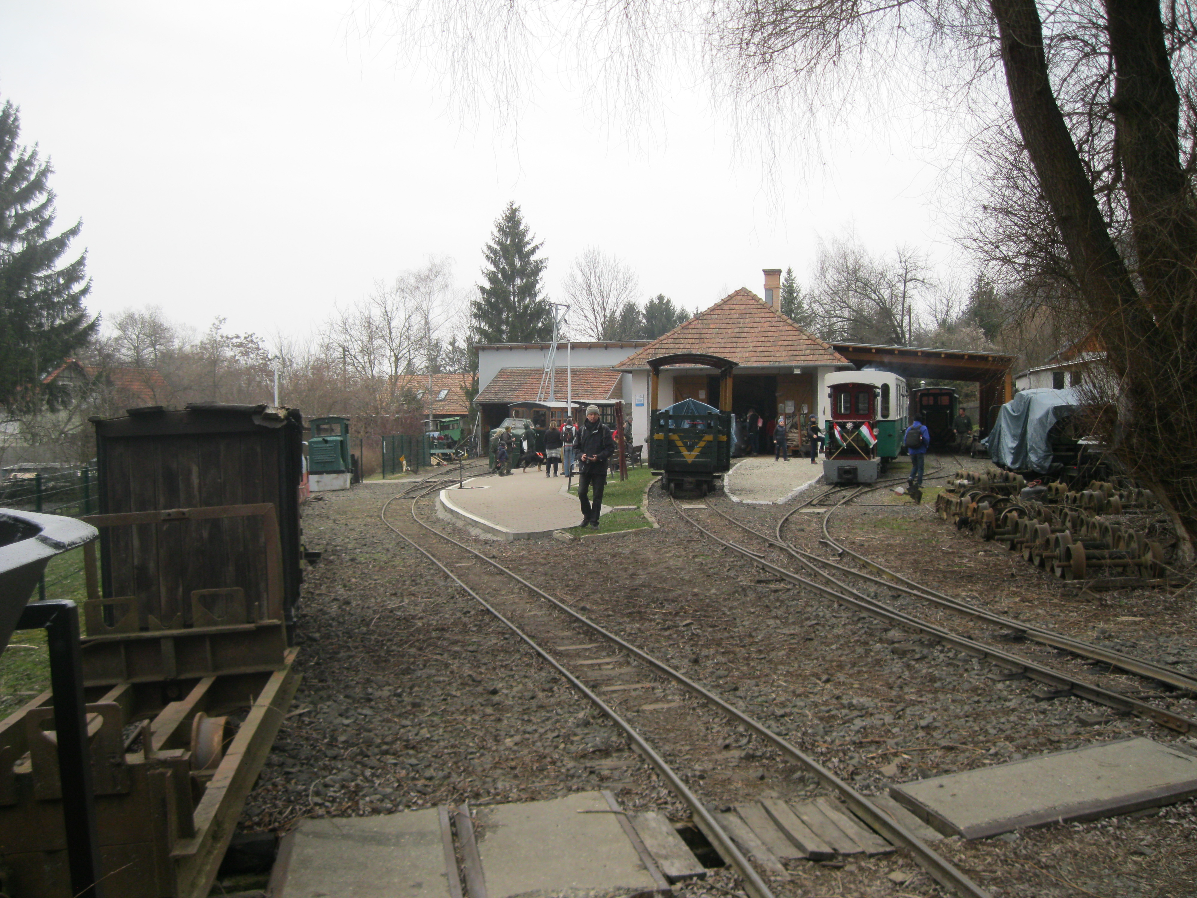 The depot and terminus of the Kemence Forestry Museum Railway on March 15, 2017.